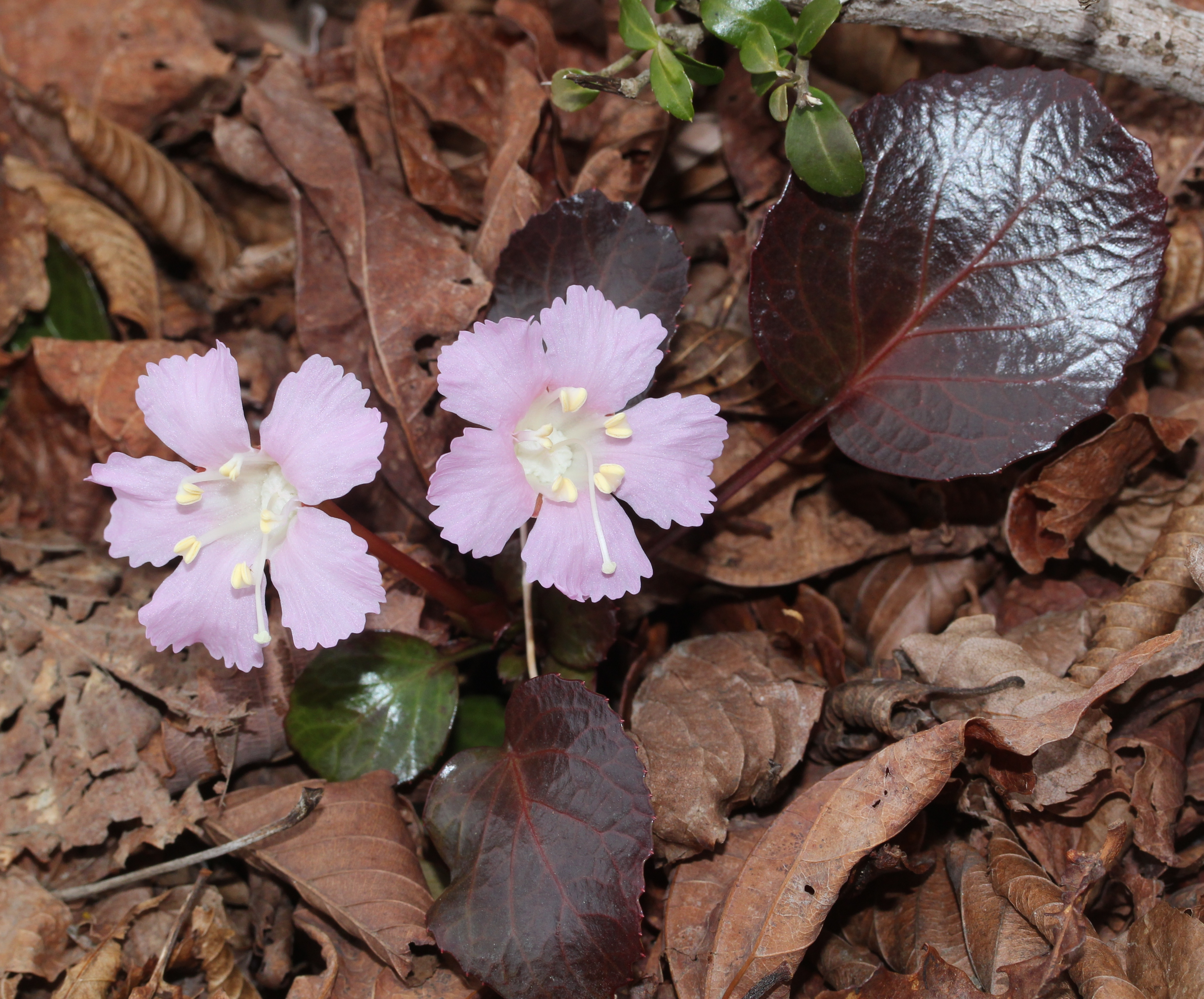 Shortia uniflora in Mount Kaizuki, Ibigawa, Gifu prefecture, Japan.